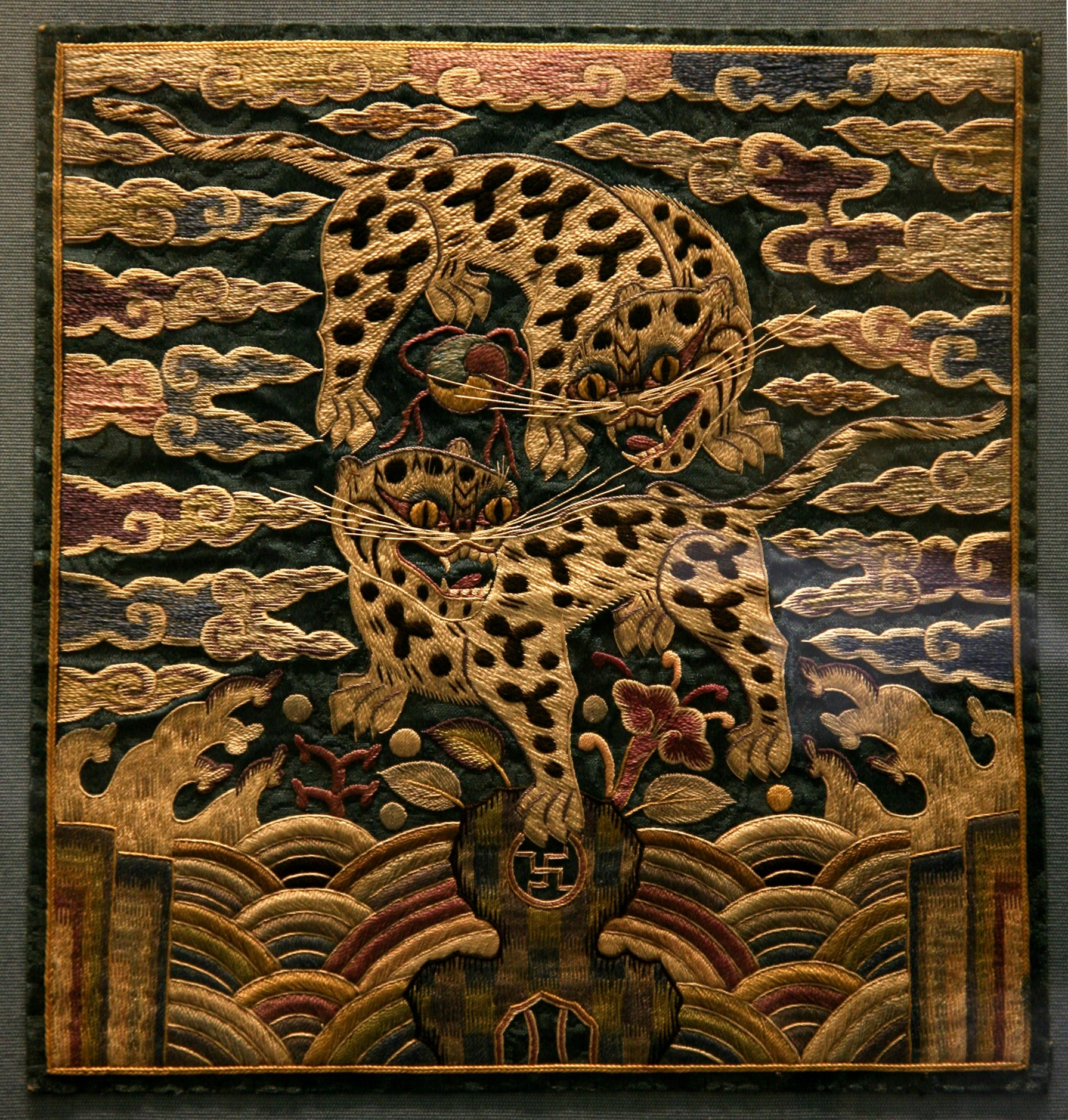 A rank badge (hyungbae in Korean) currently exhibited at Victoria and Albert Museum